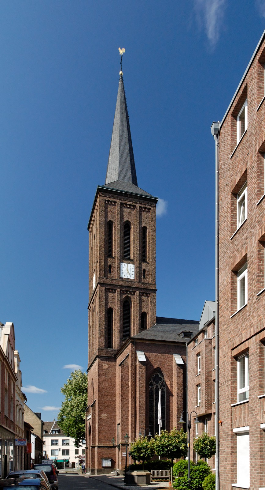 Saint Benedict in Düsseldorf-Heerdt, Germany